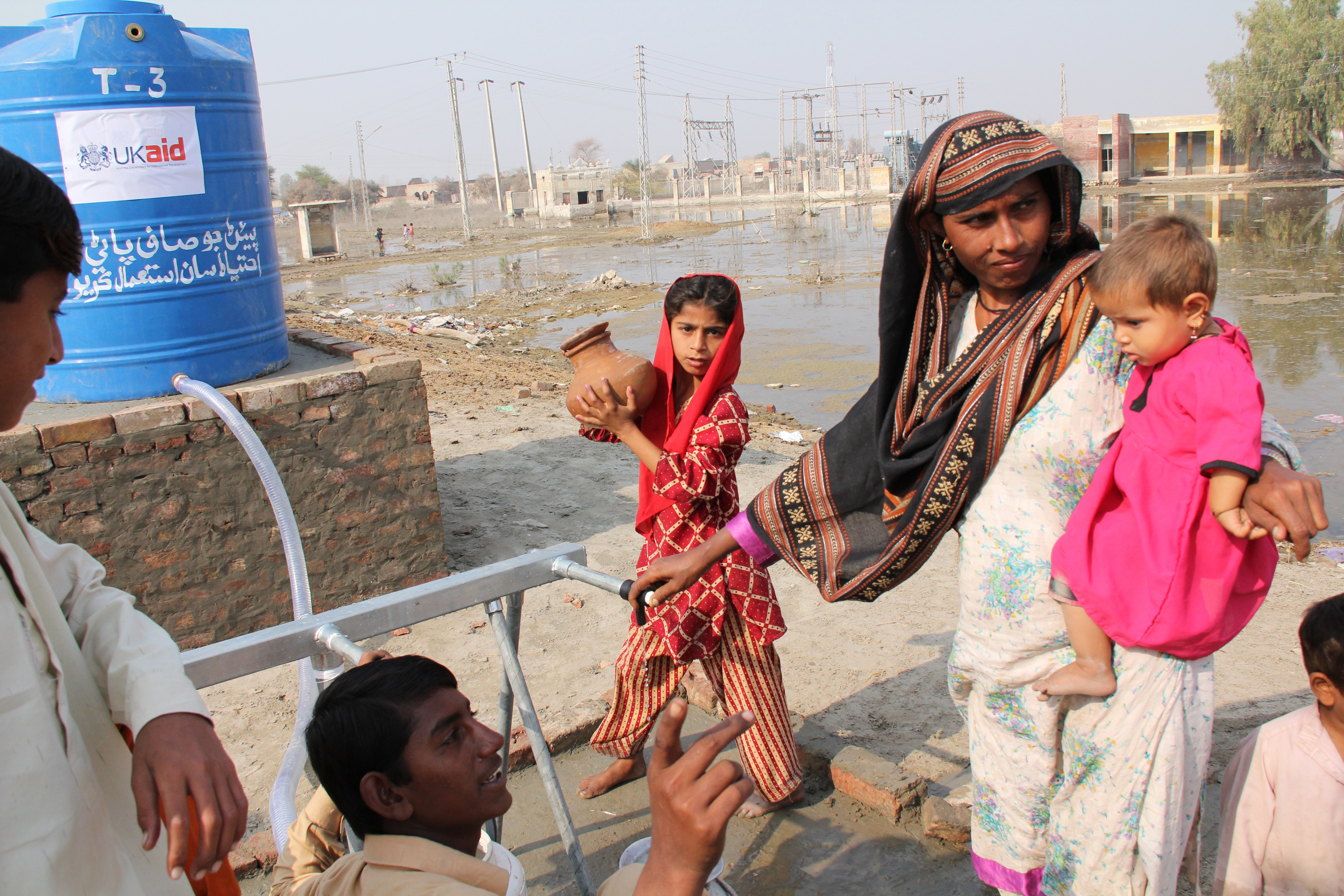 People displaced by the 2010 flooding in Pakistan collect clean drinking water from a tapstand in the town of Ghari Kharo, in western Sindh Province. UKaid from the British government's Department for International Development is helping the NGO Mercy Corps deliver clean water and sanitation facilities to over 160,000 people in Sindh as they return home to destroyed houses and partially flooded communities and agricultural land. In some parts of Sindh the water may take many more months to fully drain away. More than 20 million people were affected across Pakistan, making the flooding possibly the single biggest humanitarian crisis the world has ever seen. Find out more about the UK government's response to the Pakistan floods at Image: DFID/Russell Watkins Terms of use This image is posted under a Creative Commons - Attribution Licence, in accordance with the Open Government Licence. You are free to embed, download or otherwise re-use it, as long as you credit the source as 'Department for International Development'.